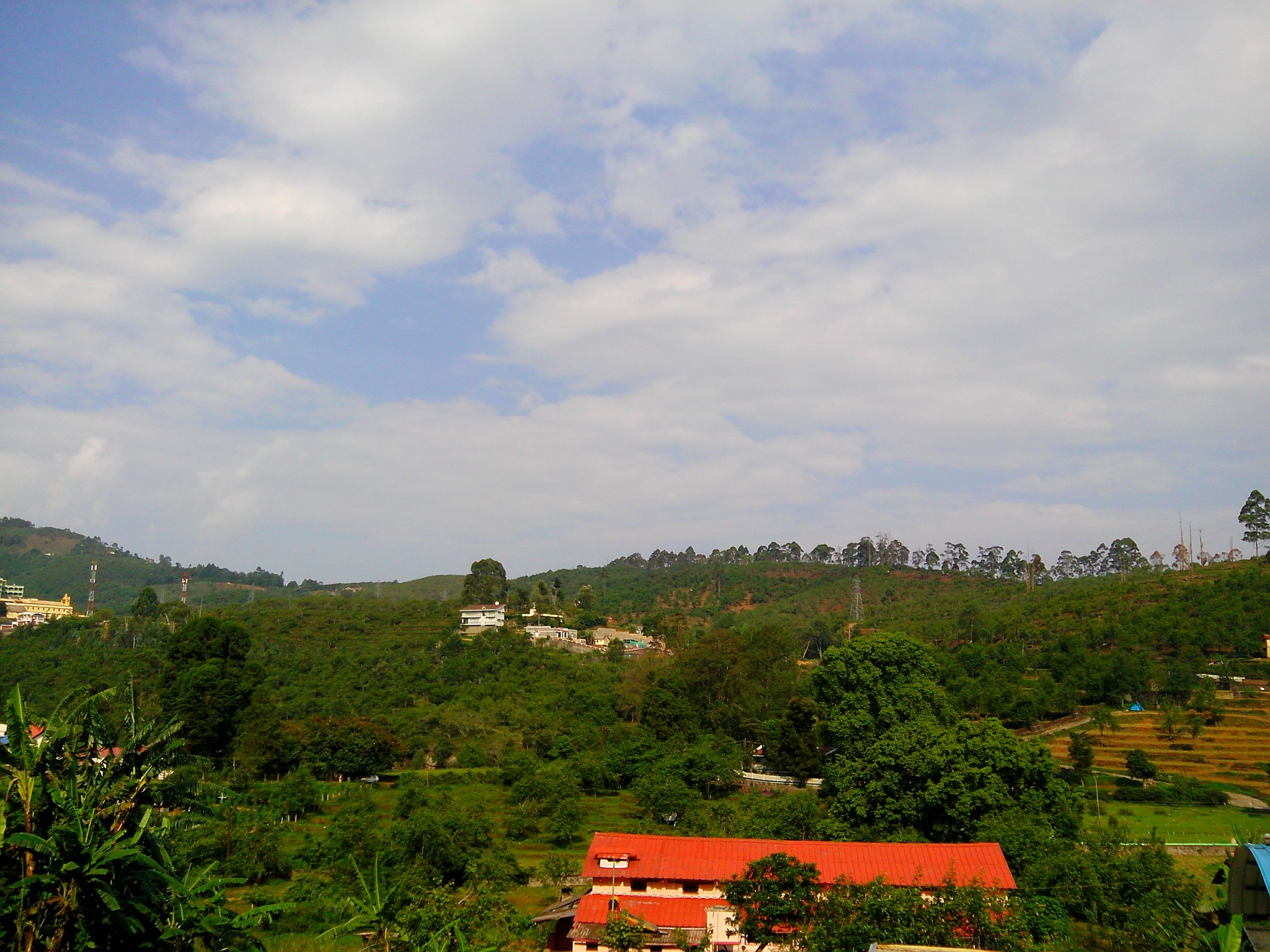 Landscape of Kodaikanal